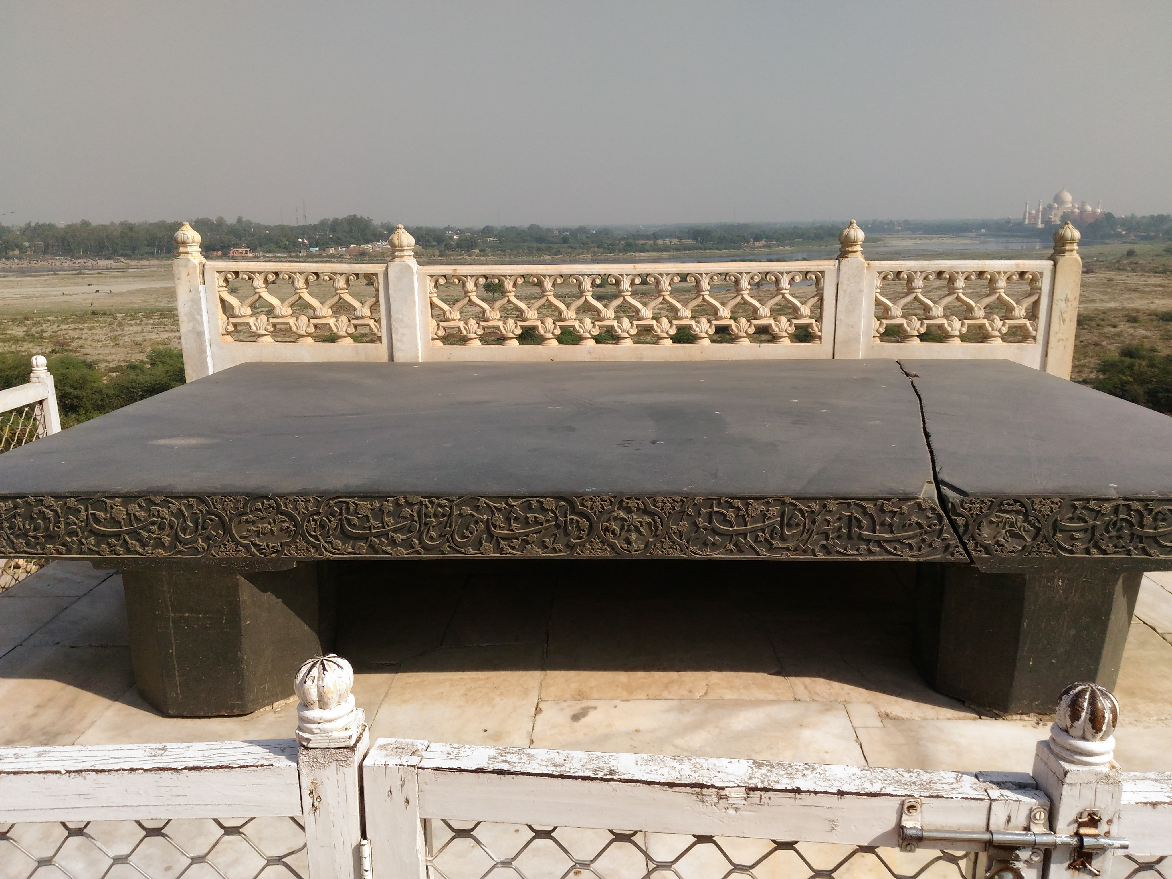 agra fort throne of jahangeer